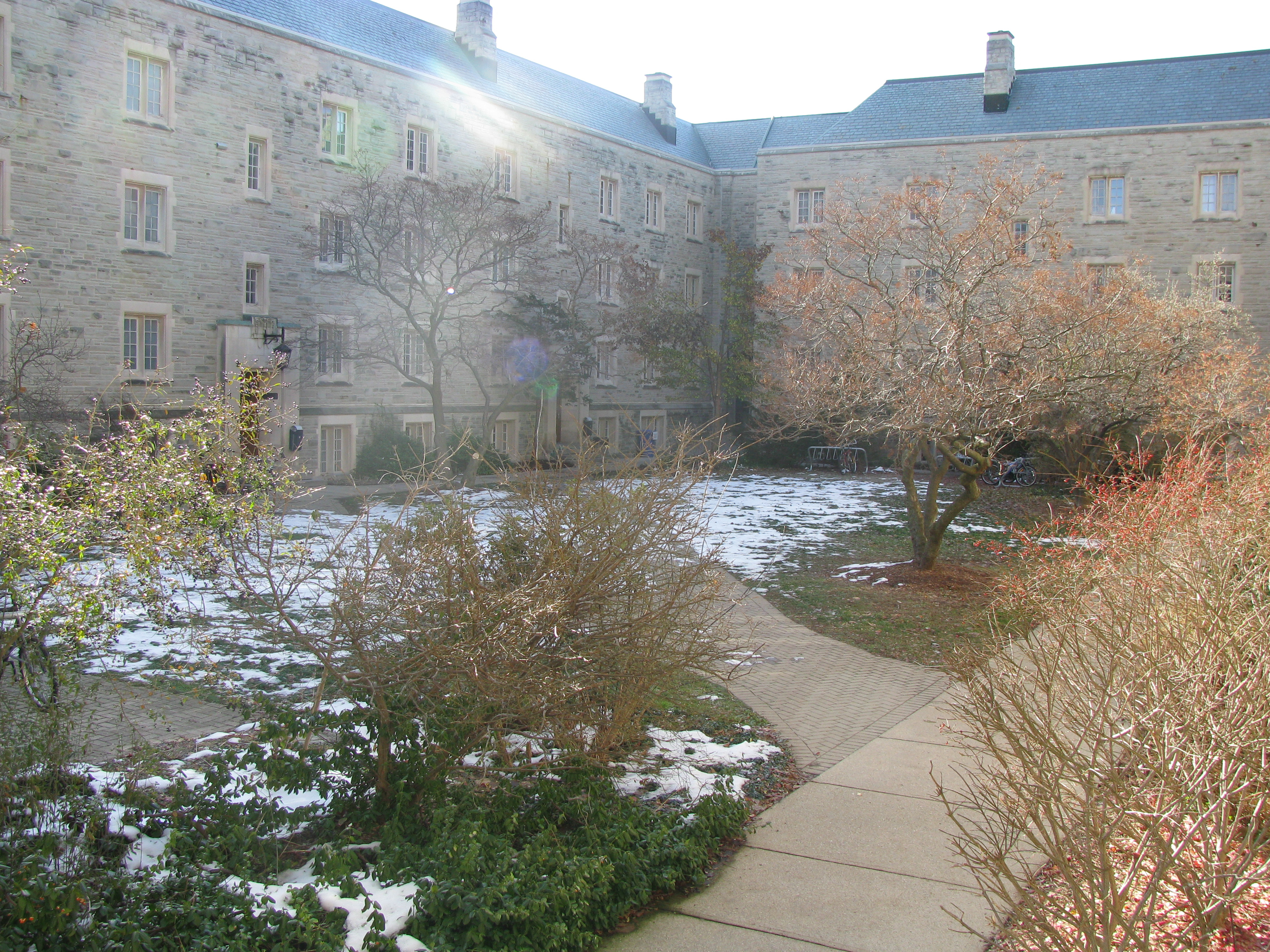 View into the Medway 'Quad' within the Medway Sydenham Hall residence at The University of Western Ontario in London, Ontario, Canada.